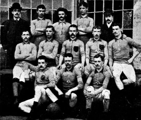 Photograph of the Blackburn Olympic association football team from 1883. Photographer is simply listed as "A" in the image's caption in the Strand Magazine. This article is now available freely on .